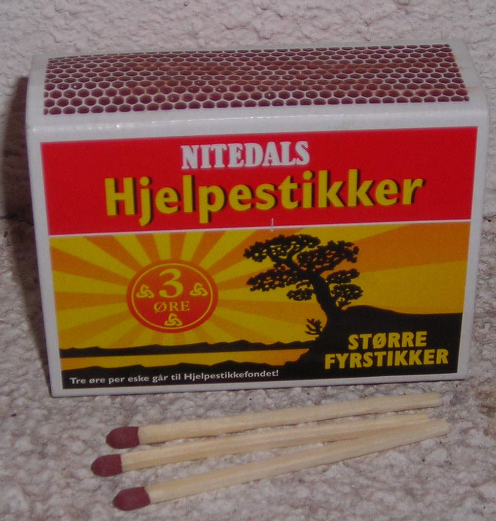 A box of matches Nitedals Hjelpestikker